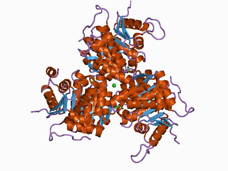 Cartoon representation of the molecular structure of protein registered with 1c3q code.